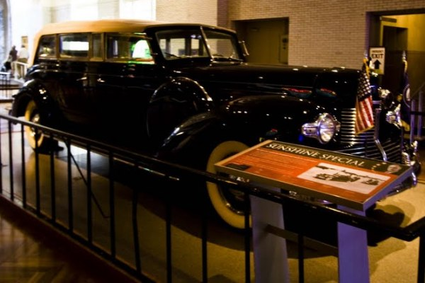 The "Sunshine Special" on display at Henry Ford Museum in Dearborn, Michigan.